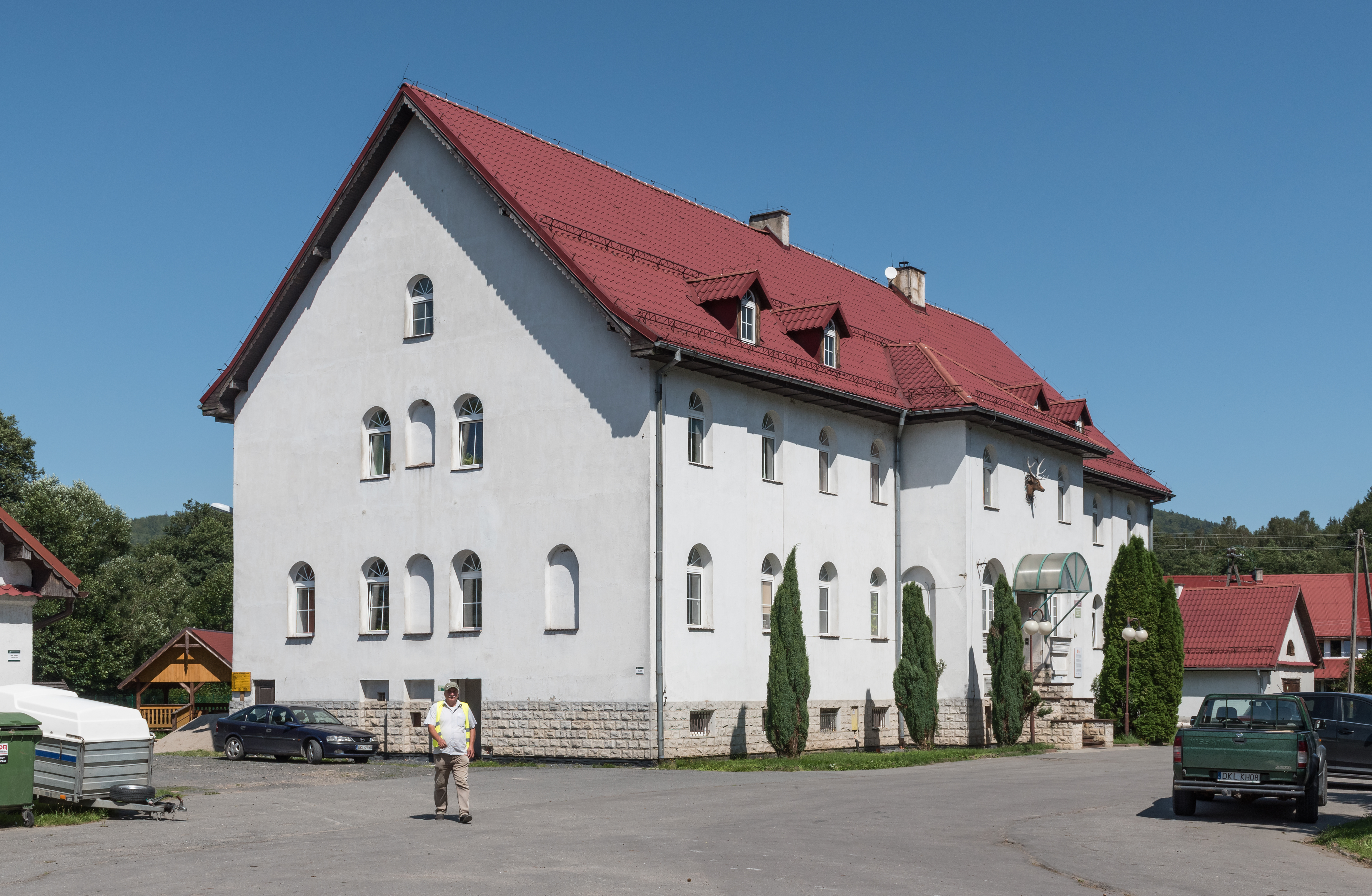 Forest headquarter in Strachocin